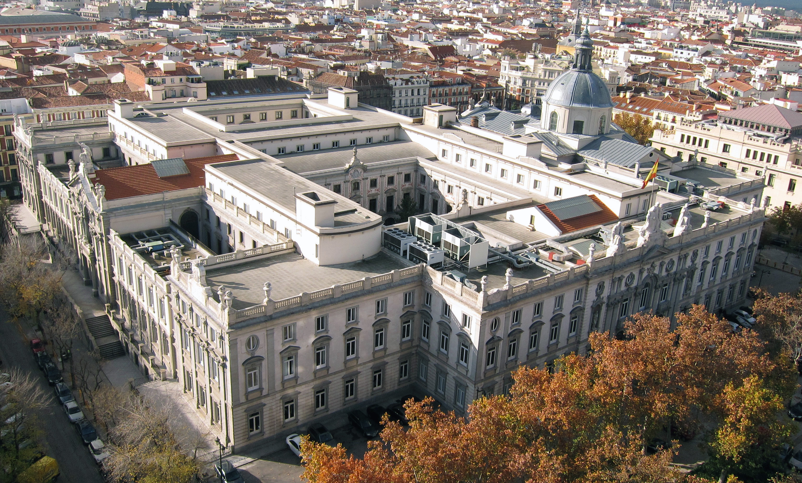 Supreme Court of Spain in Madrid (aerial view)